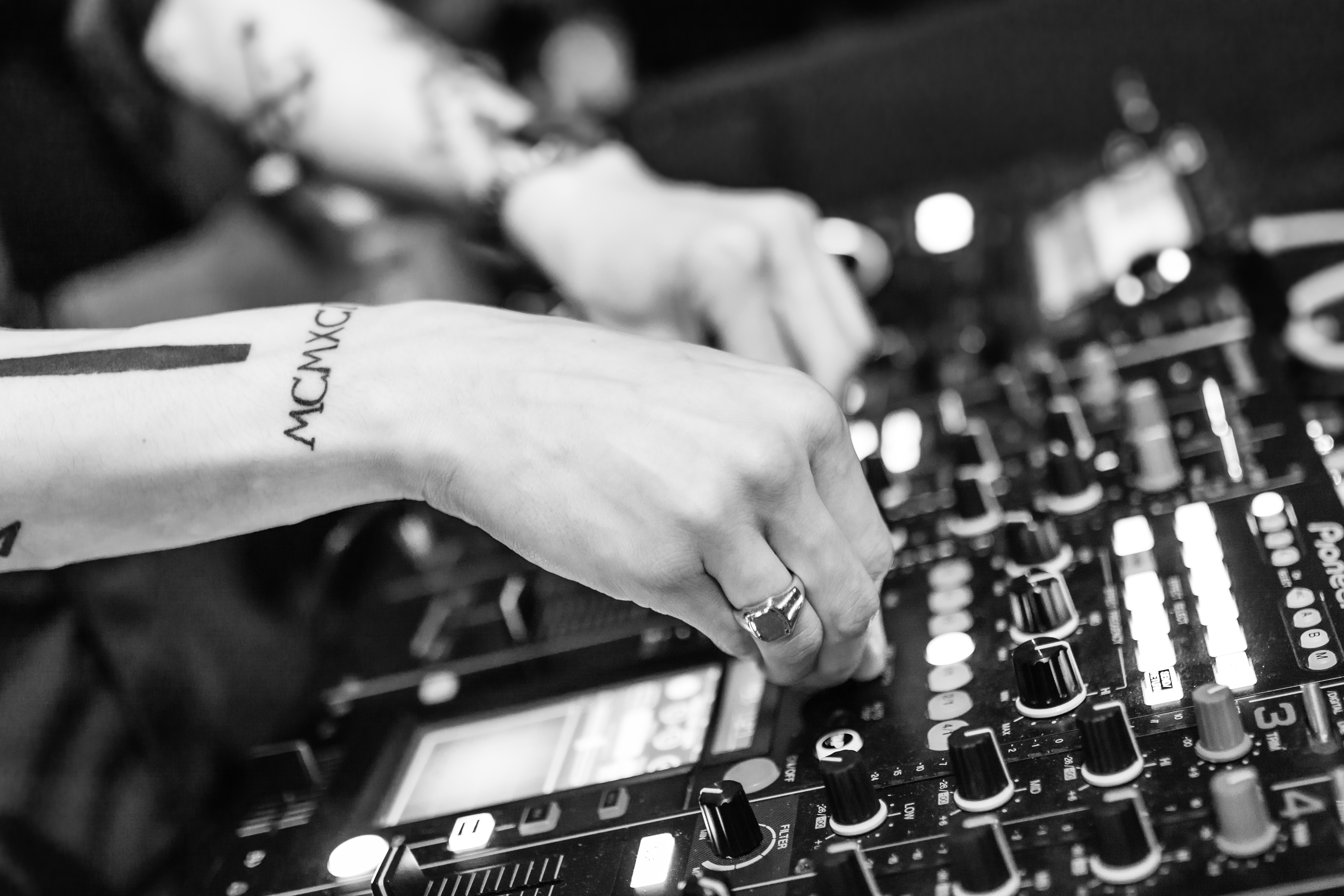 Pioneer DJM2000 DJ Mixer. Not a DJM-2000 Nexus.